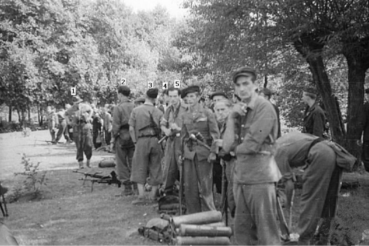 Kampinos Regiment during Warsaw Uprising: Preparations of Kampinos Regiment for action to aid Warsaw Uprising. Wiersze village August 19, 1944. The tubes in the frontcontain PIAT ammunition; in the back "Bren" machine guns are visible. From the laft: 1) Jerzy Baumiller "Żorż" 2) Tadeusz Gaworki "Lawa", 3) Ludwik de Laveaŭ "Bob" 4) Andrzej Berezowski "Trzynastka", 5) Zbigniew Słoczyński "Sum".